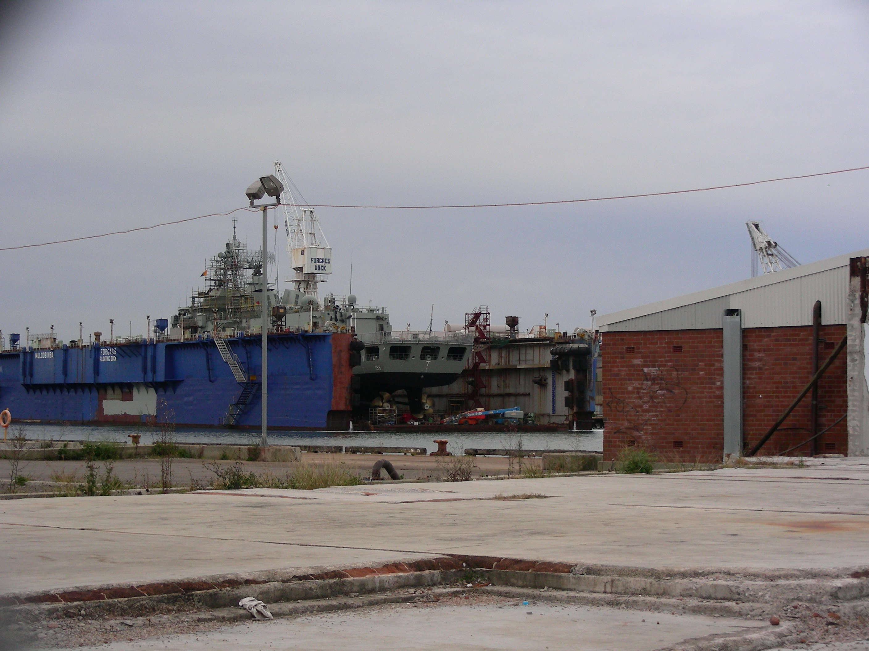 Australian frigate HMAS Ballarat in the floating drydock at Forgacs Shipyard in Newcastle, NSW